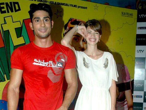 Kalki Koechlin ad Prateik Babbar at the ‘My Friend Pinto’ film promotions